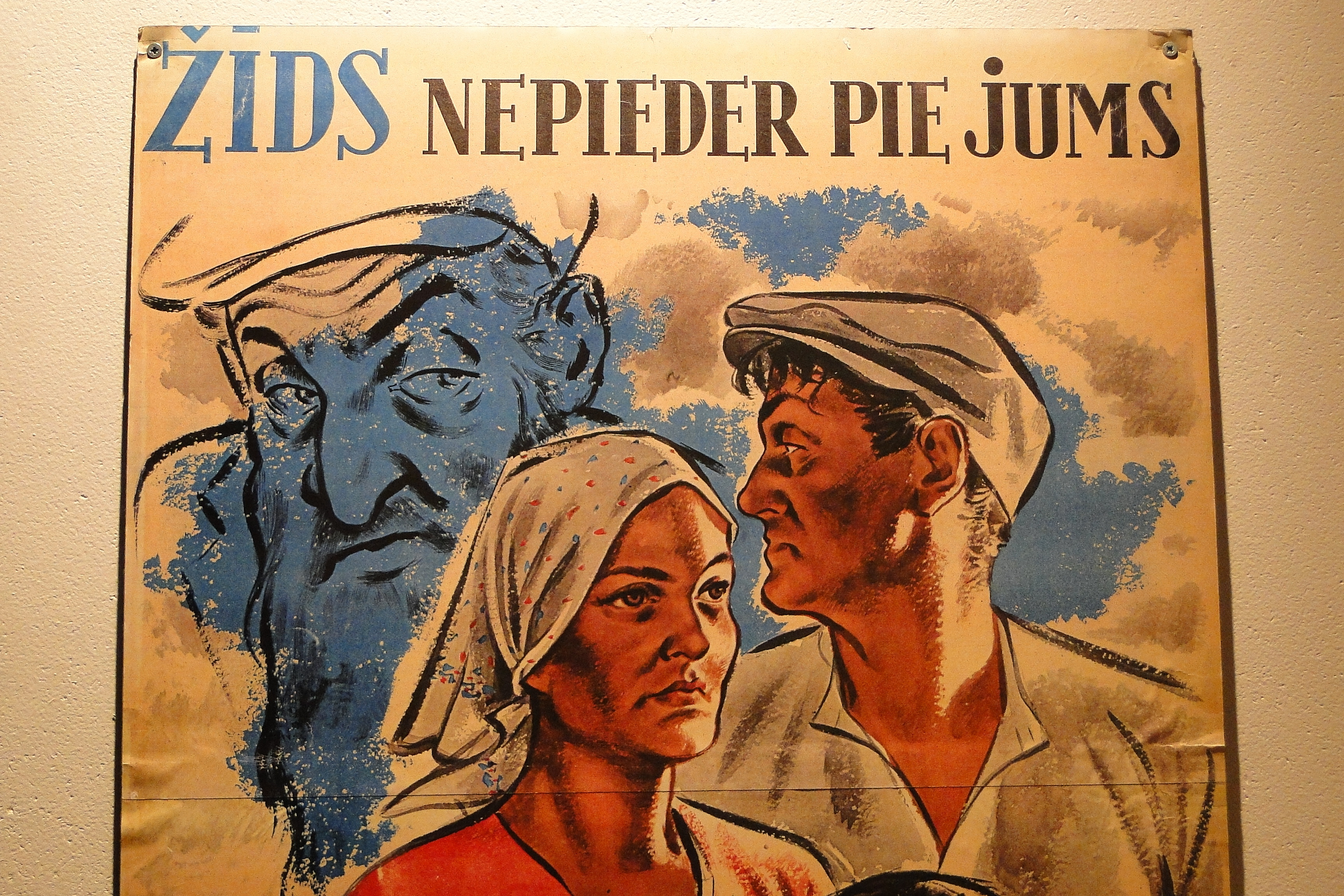 Nazi Anti-Semitic Poster in Latvian Language - Museum of Latvia's Occupation - Riga - Latvia